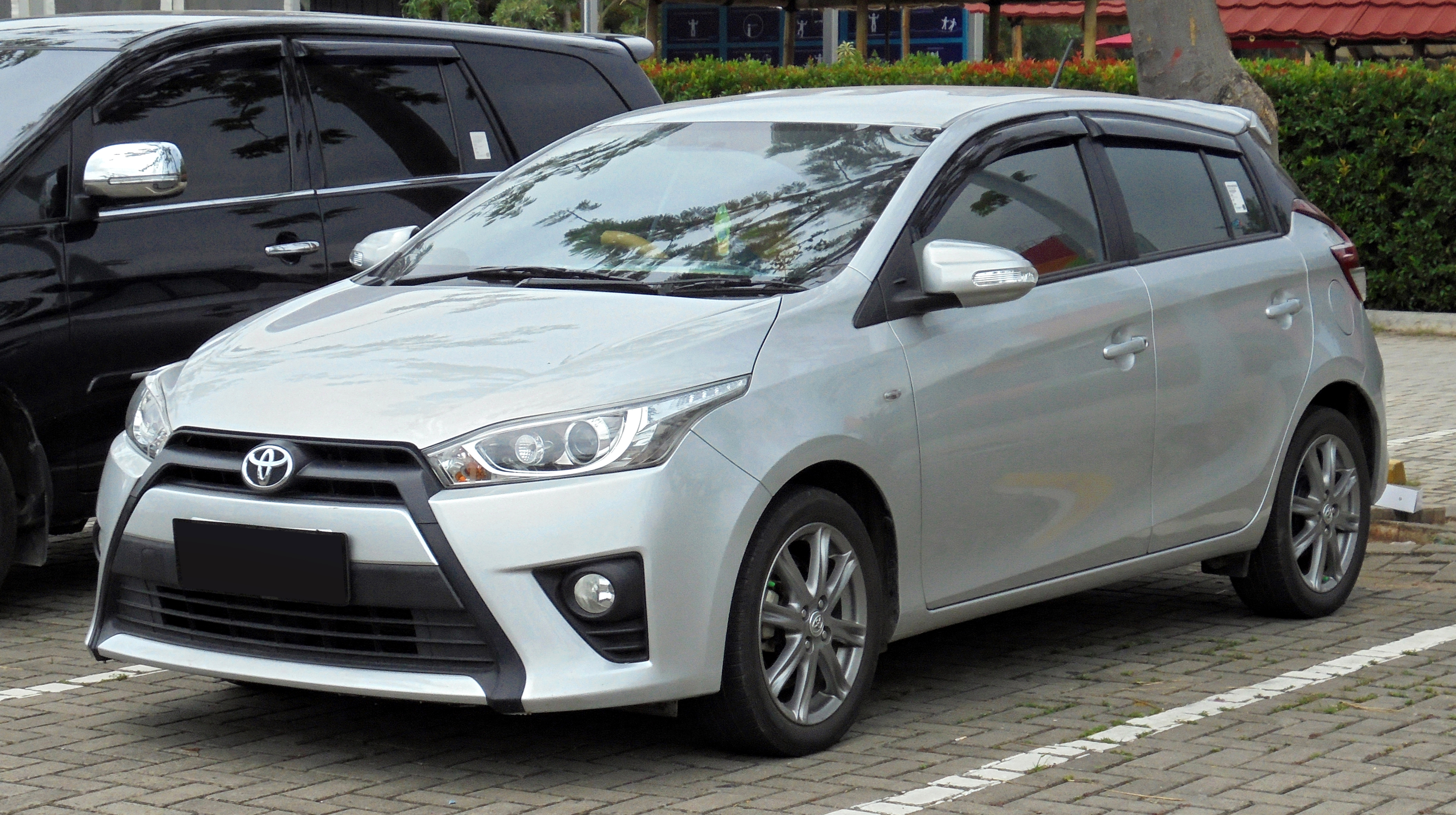 2015 Toyota Yaris 1.5 G hatchback (NCP150R) photographed in South Tangerang, Banten, Indonesia.